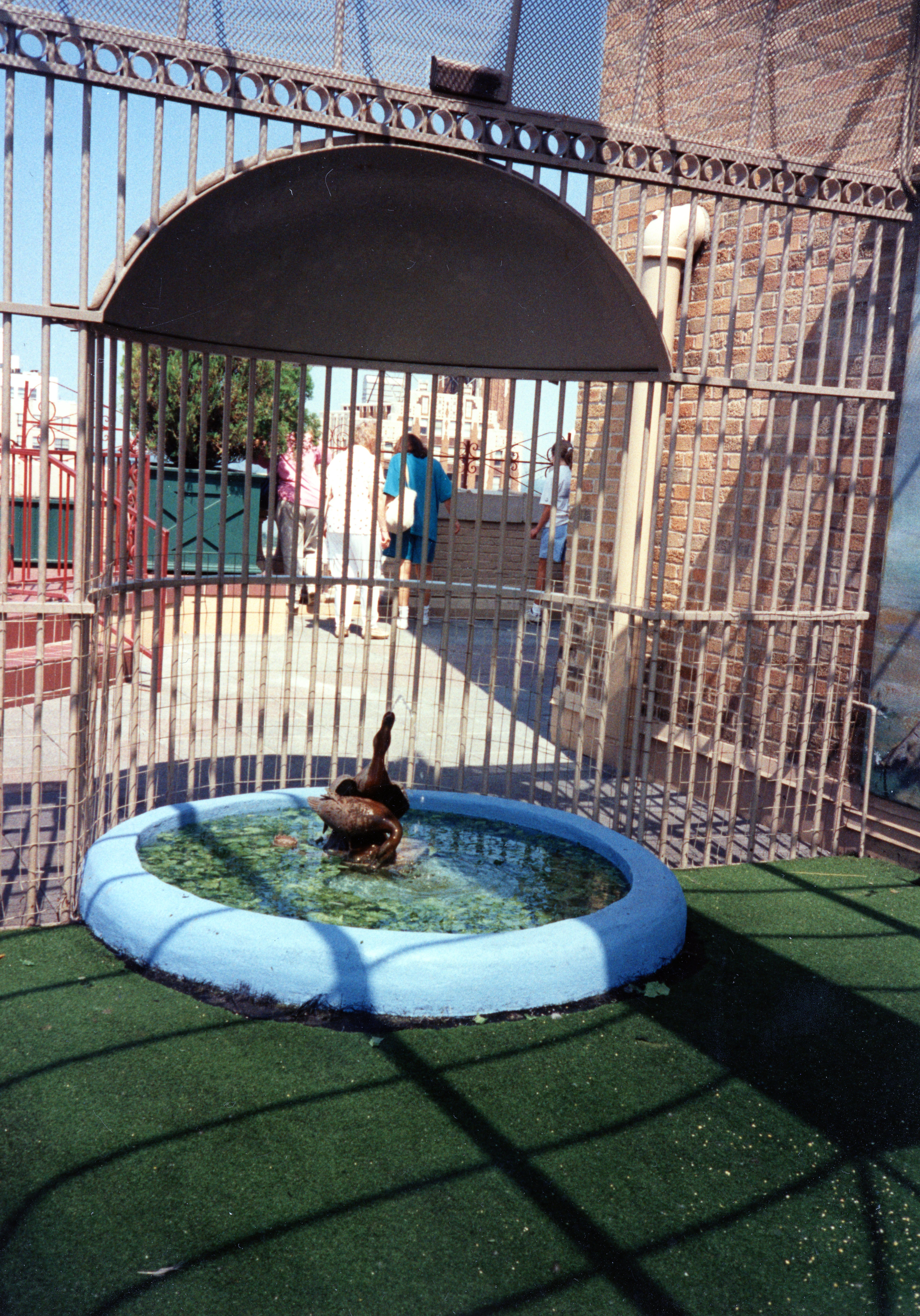 The Duck Palace swimming pool on the roof of the Peabody Hotel